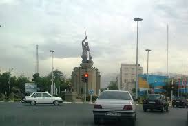 Garshasb and Dragon by Gholamreza Rahimzadeh Arjang